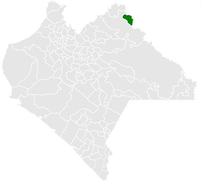 Map of the Municipalty of La Libertad in the State of Chiapas, México.